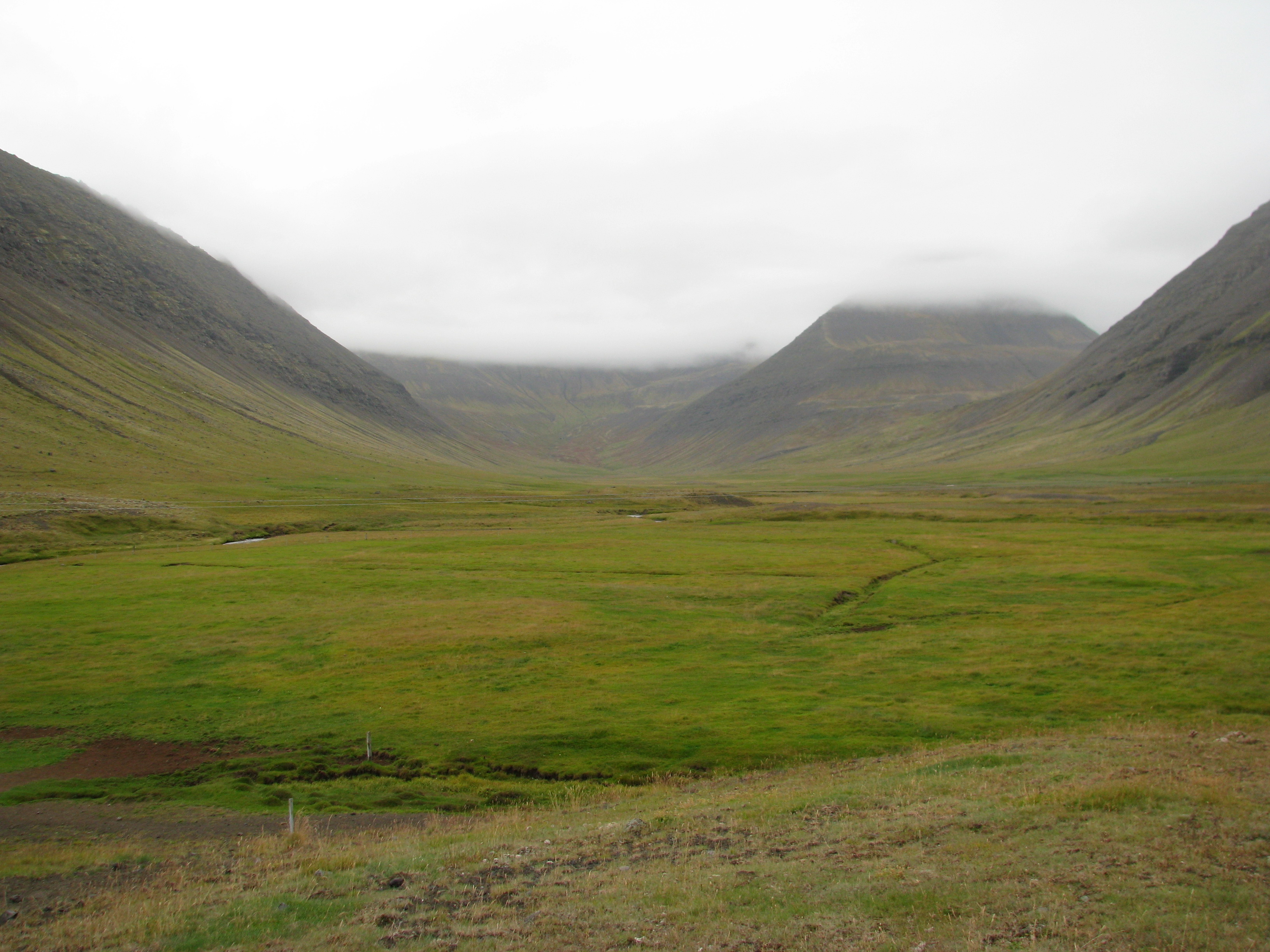 Overview of Haukadalur, a short valley at the shore of Dýrafjörður, North Iceland.